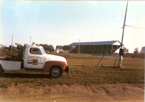 Author is George Oltsher Given to Anthony Leek to use for explaning history of Emo Speedway.